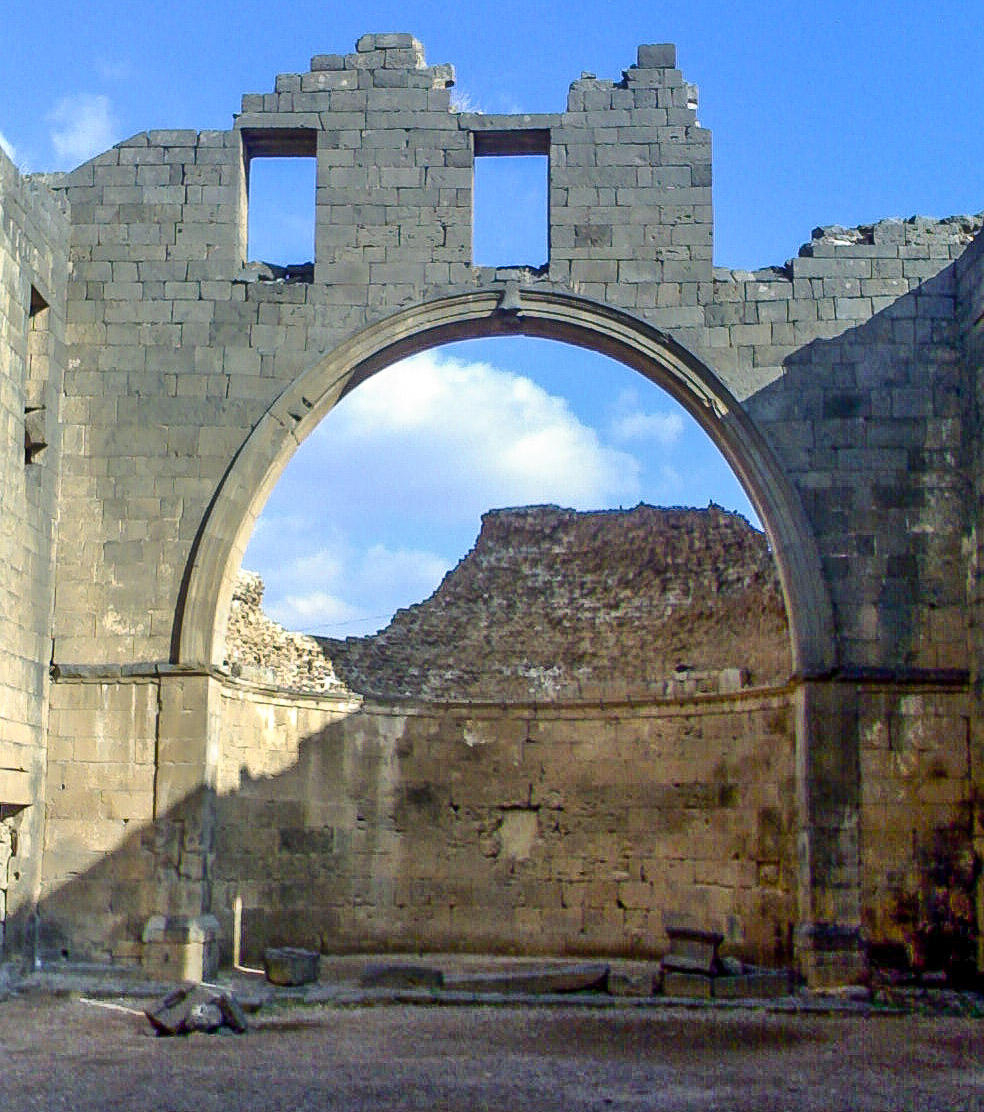 The Monastery of Bahira, Bosra